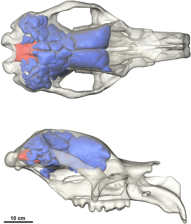 The sinuses are displayed in blue and cranial endocast in red. Bone is 70% transparent.